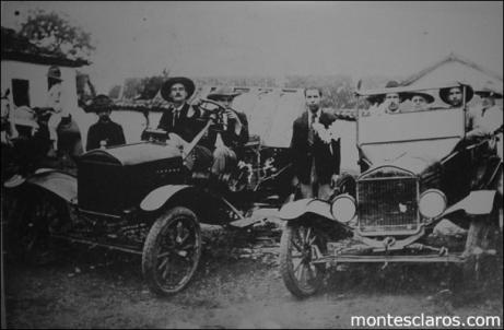 The first car of Montes Claros, Minas Gerais, Brazil.